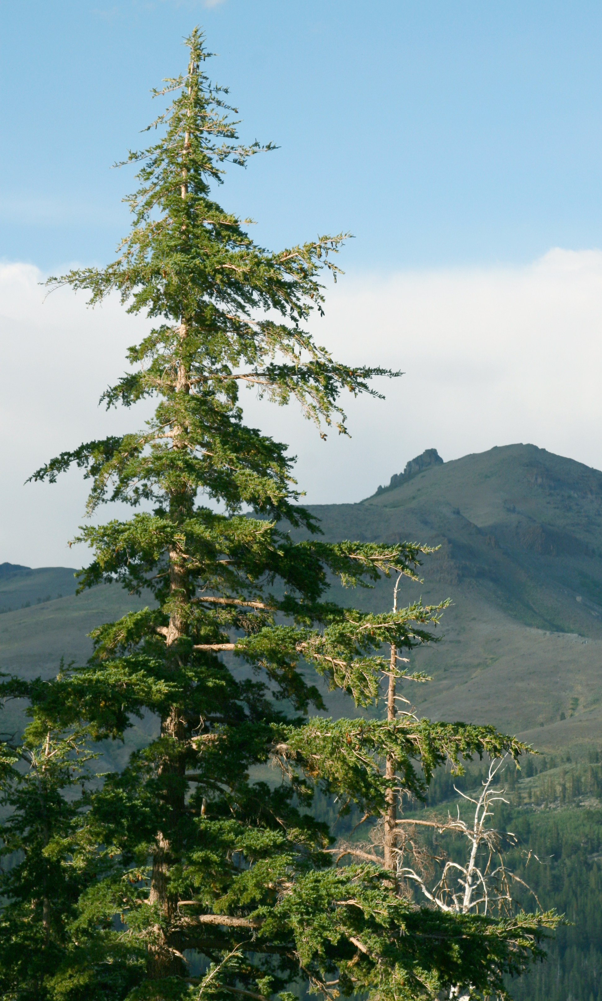 Tsuga mertensiana subsp. grandicona tree, Kirkwood, California 38°42'18"N 120°3'10"W, 2390m altitude.